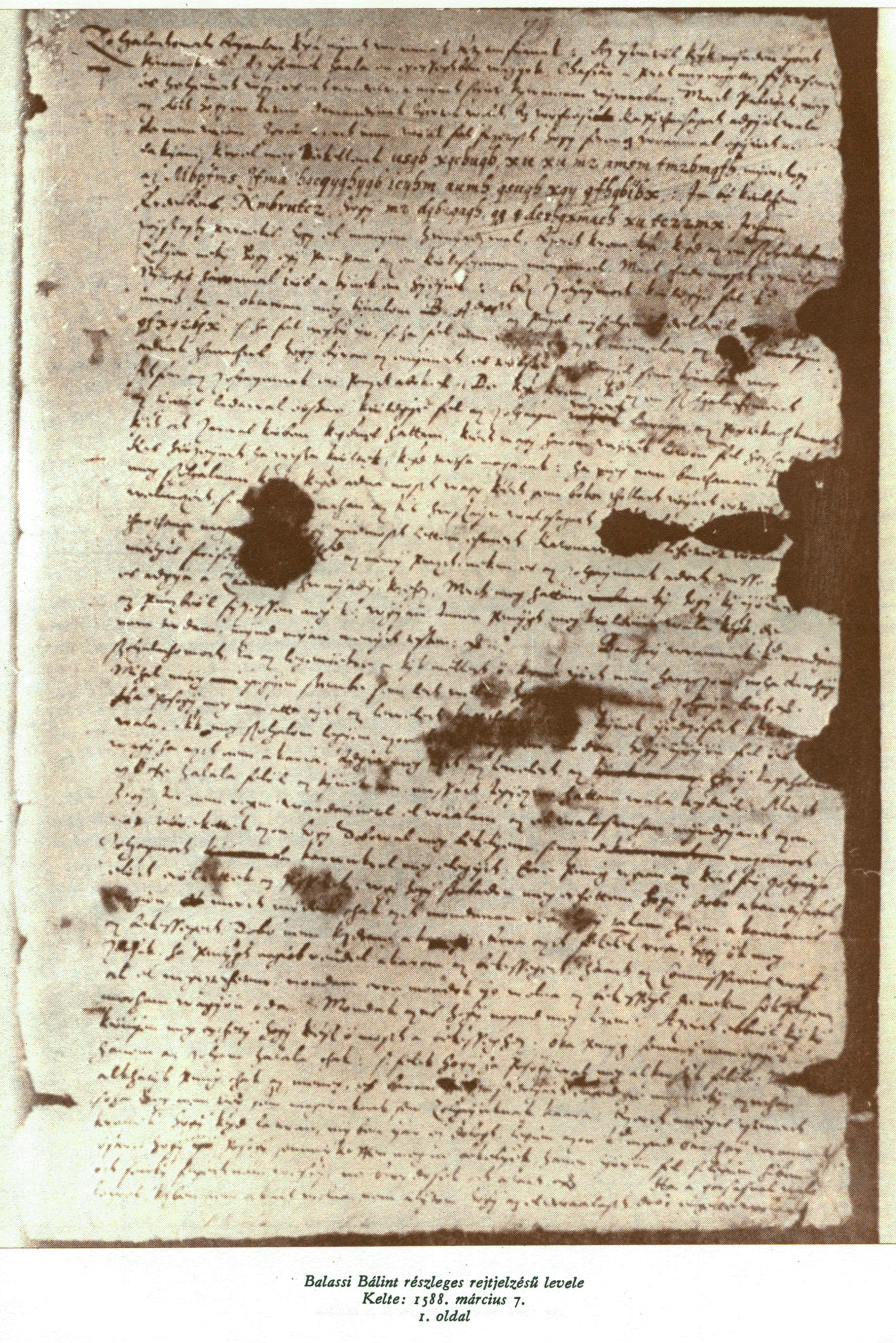 Partially encrypted letter of Bálint Balassi, page 1